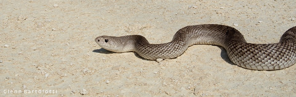 Florida Pine Snake, Pituophis melanoleucus